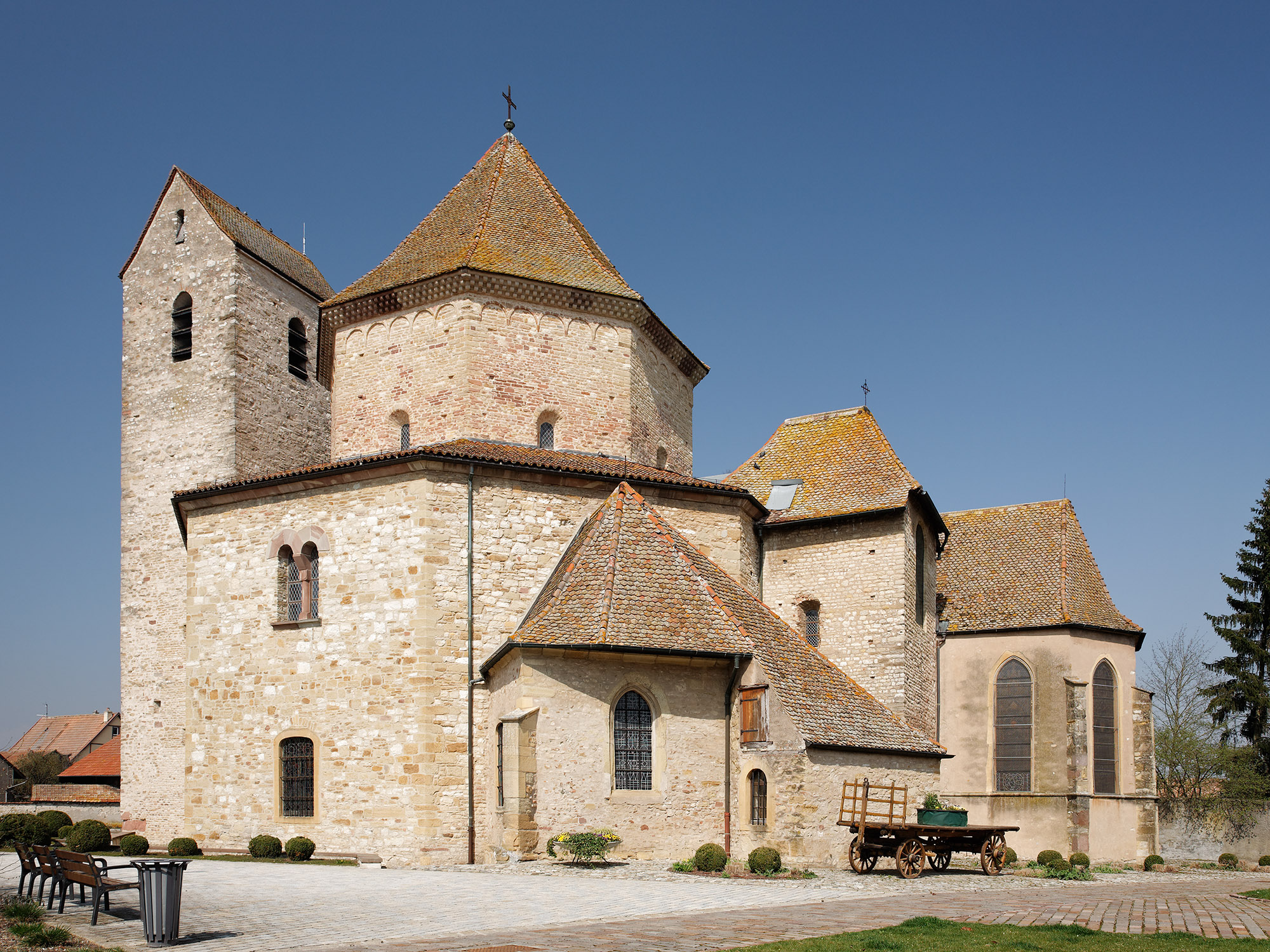 The Romanesque church of Saint-Pierre-et-Saint-Paul at Ottmarsheim, Haut-Rhin, Alsace, France, based on the octagonal plan of the Palatine Chapel of Aachen. Formerly an abbey-church, it is devoted by the pope Leo IX in 1049. View from the South-East.